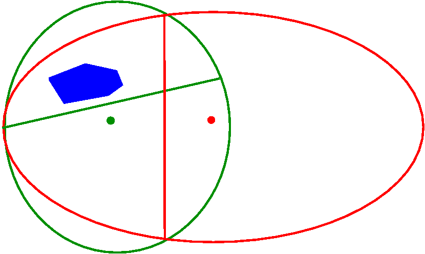 Shows a linear programming polytope (blue) together with two iterations of the ellipsoid method used to determine a point in the polytope.